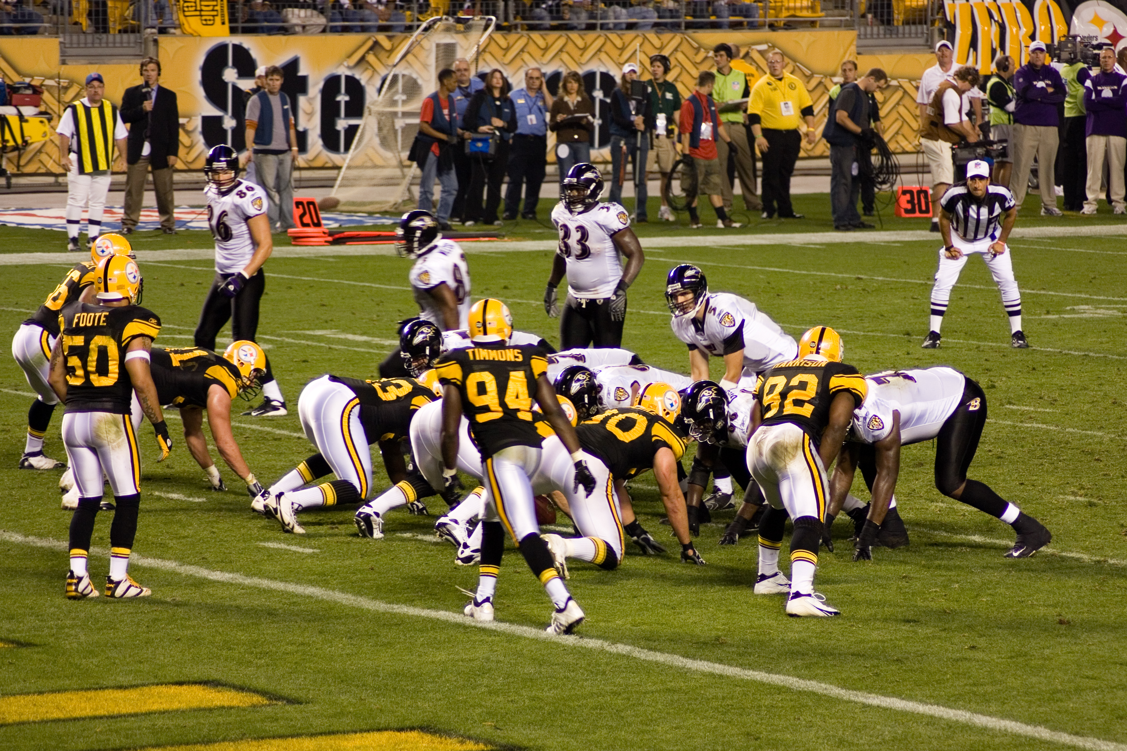 The Pittsburgh Steelers lineup against the Baltimore Ravens